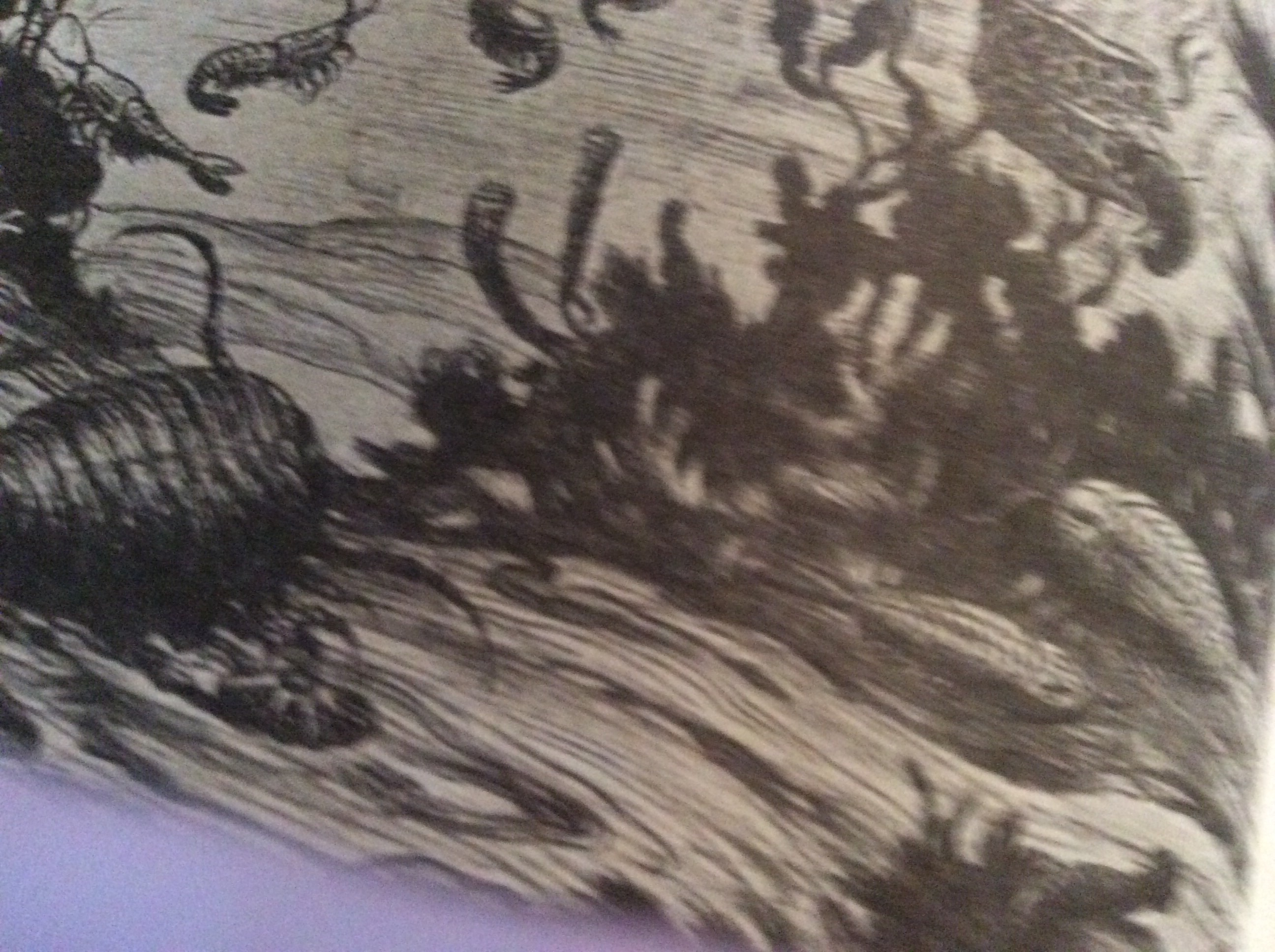 Yes,it's cropped, in greyscale and really bad quality. All the pics in WL are black-and-white and my (bad) scanner couldn't get both the whole artwork but not the (copyrighted) surrounding text.